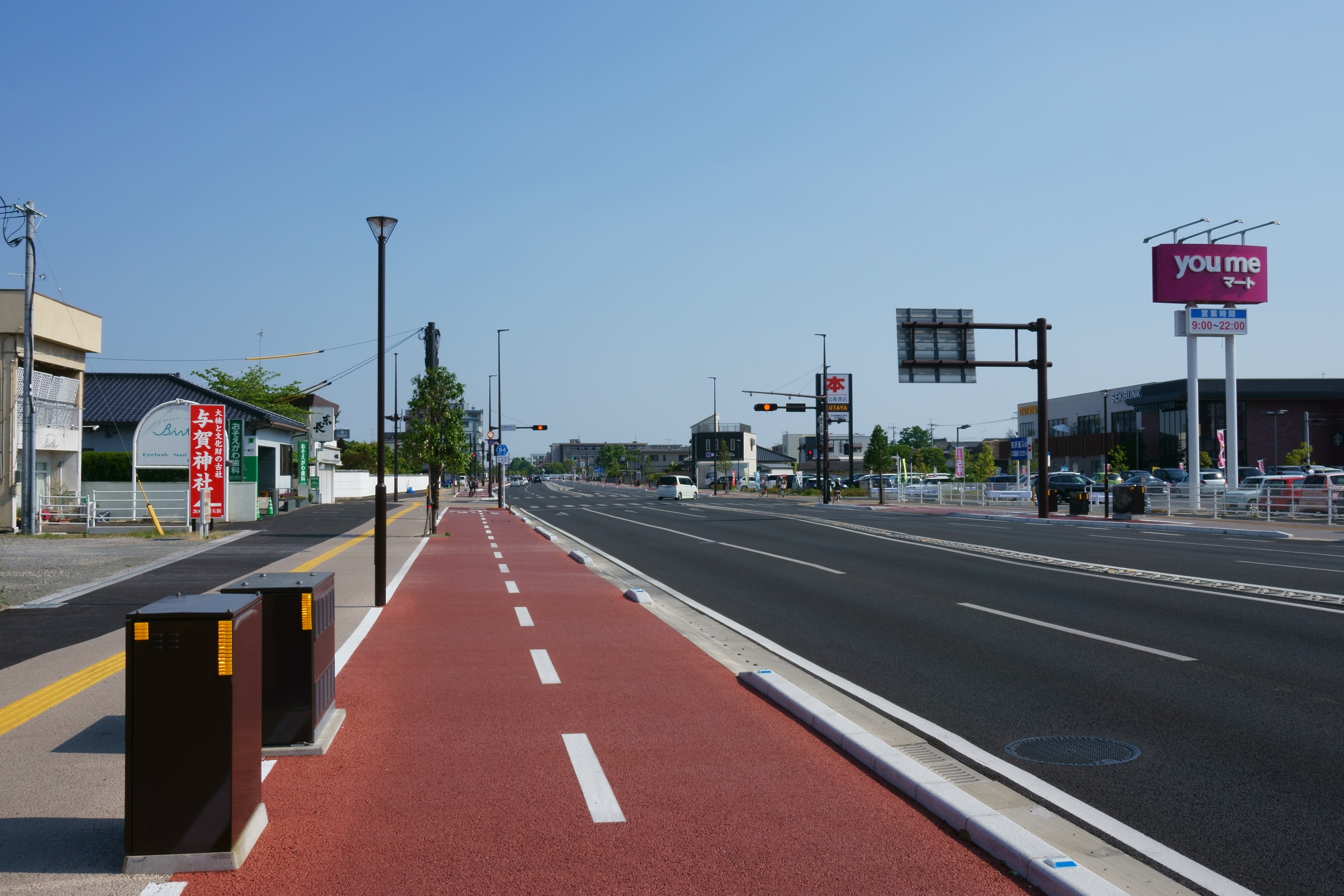 Street in Yoka-machi, Saga city. It is part of Saga prefectural road No.54.